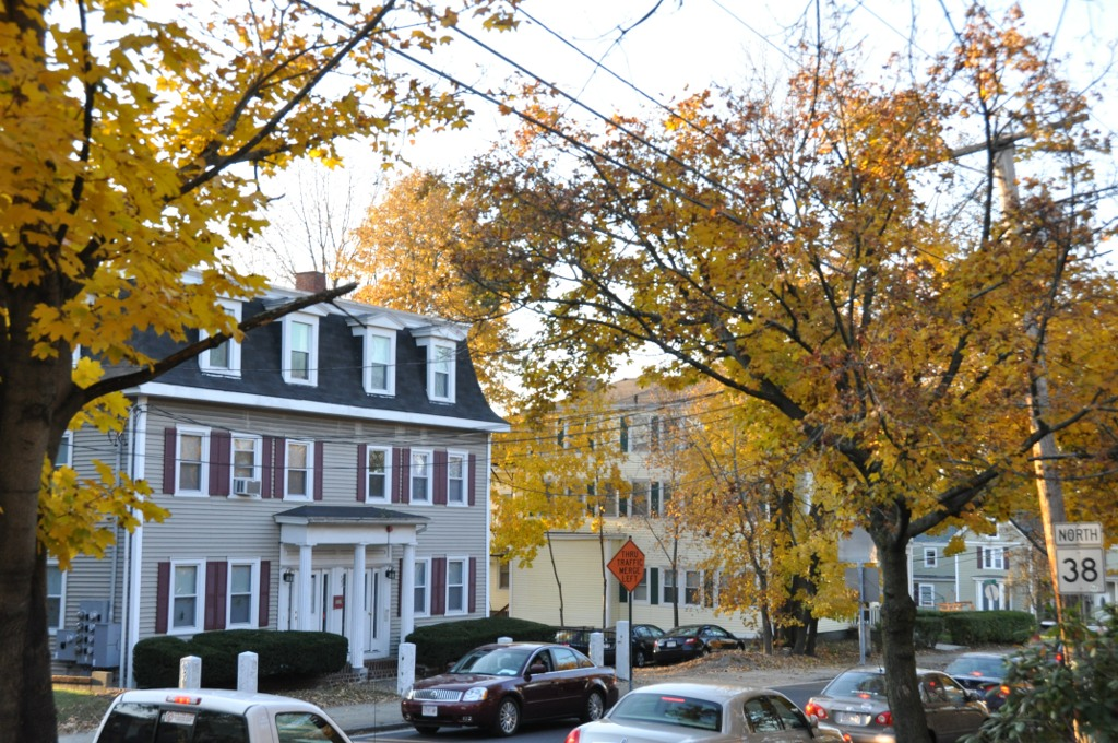 Street view of Nesmith Street (MA Route 38) in Lowell, Massachusetts, part of the Washington Square Historic District.